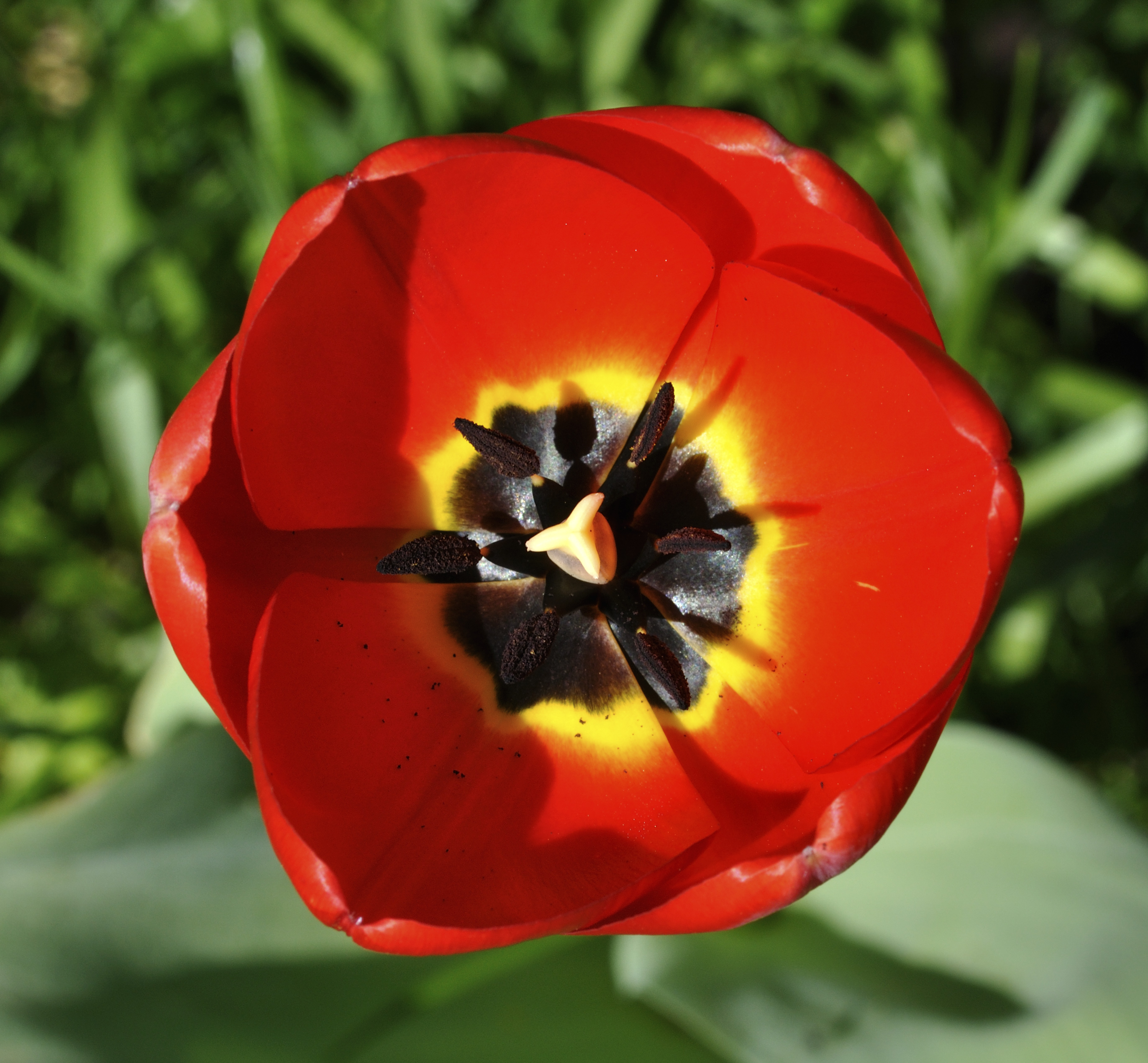 Flower of a Tulip cultivar, probably "Red Emperor", in Palmengarten Frankfurt, Germany.